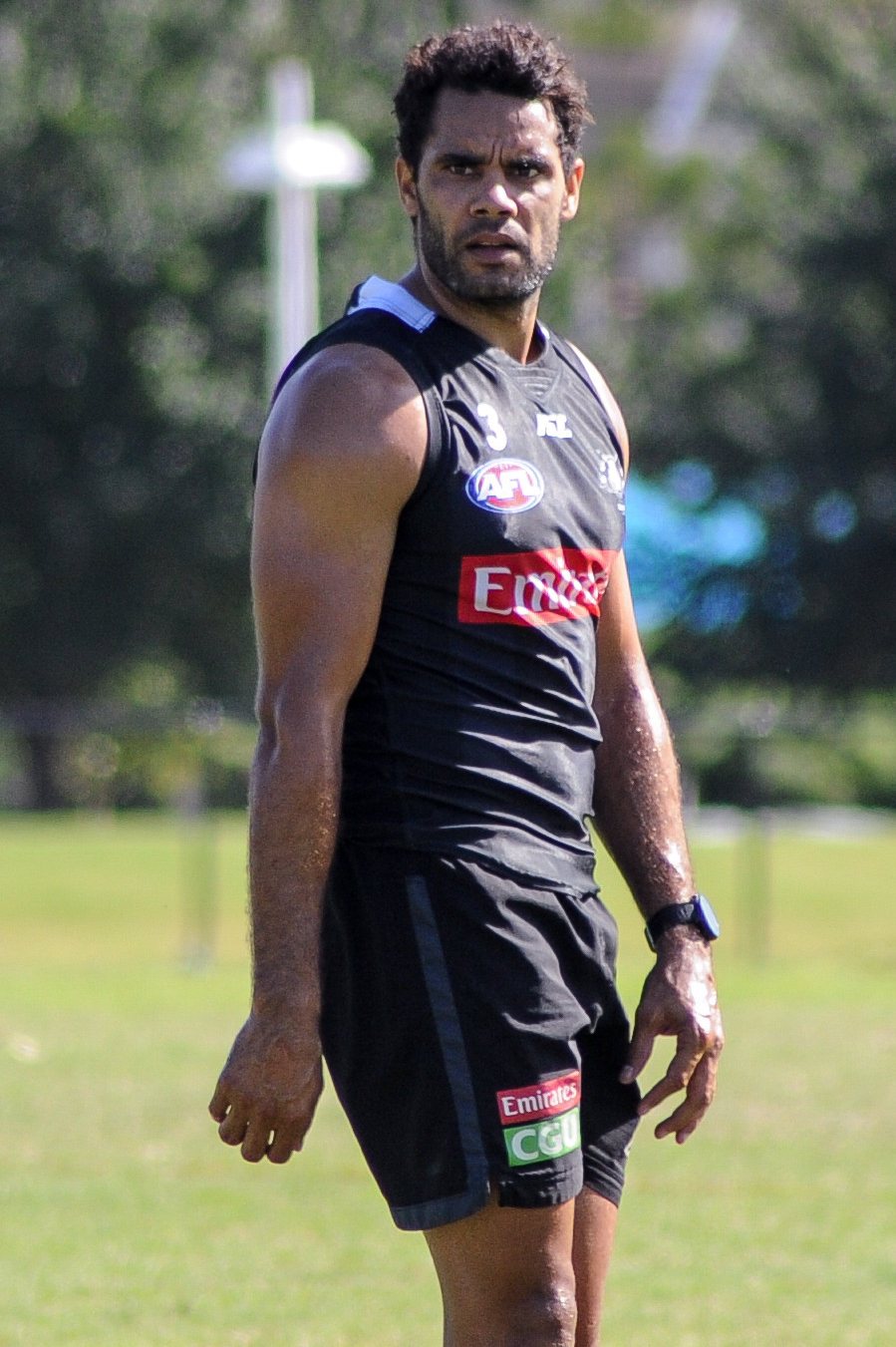 Daniel Wells during Collingwood training on 28 March 2017 at Olympic Park Oval in Melbourne, Victoria.